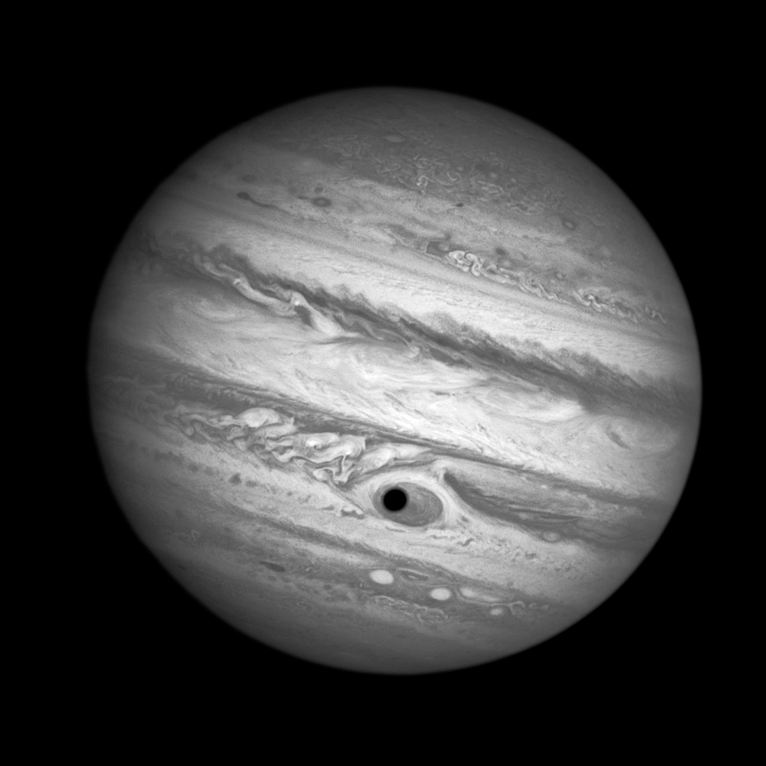 This trick that the planet is looking back at you is actually a Hubble treat: An eerie, close-up view of Jupiter, the biggest planet in our solar system. Hubble was monitoring changes in Jupiter’s immense Great Red Spot (GRS) storm on April 21, 2014, when the shadow of the Jovian moon, Ganymede, swept across the center of the storm. This gave the giant planet the uncanny appearance of having a pupil in the center of a 10,000 mile-diameter “eye.” For a moment, Jupiter “stared” back at Hubble like a one-eyed giant Cyclops. Click on the image to view Jupiter from a distance.